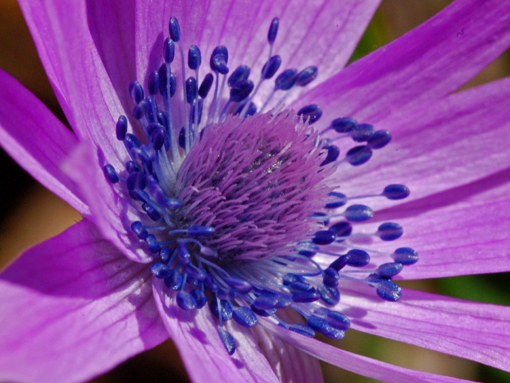 Anemone hortensis - Genova, Italy